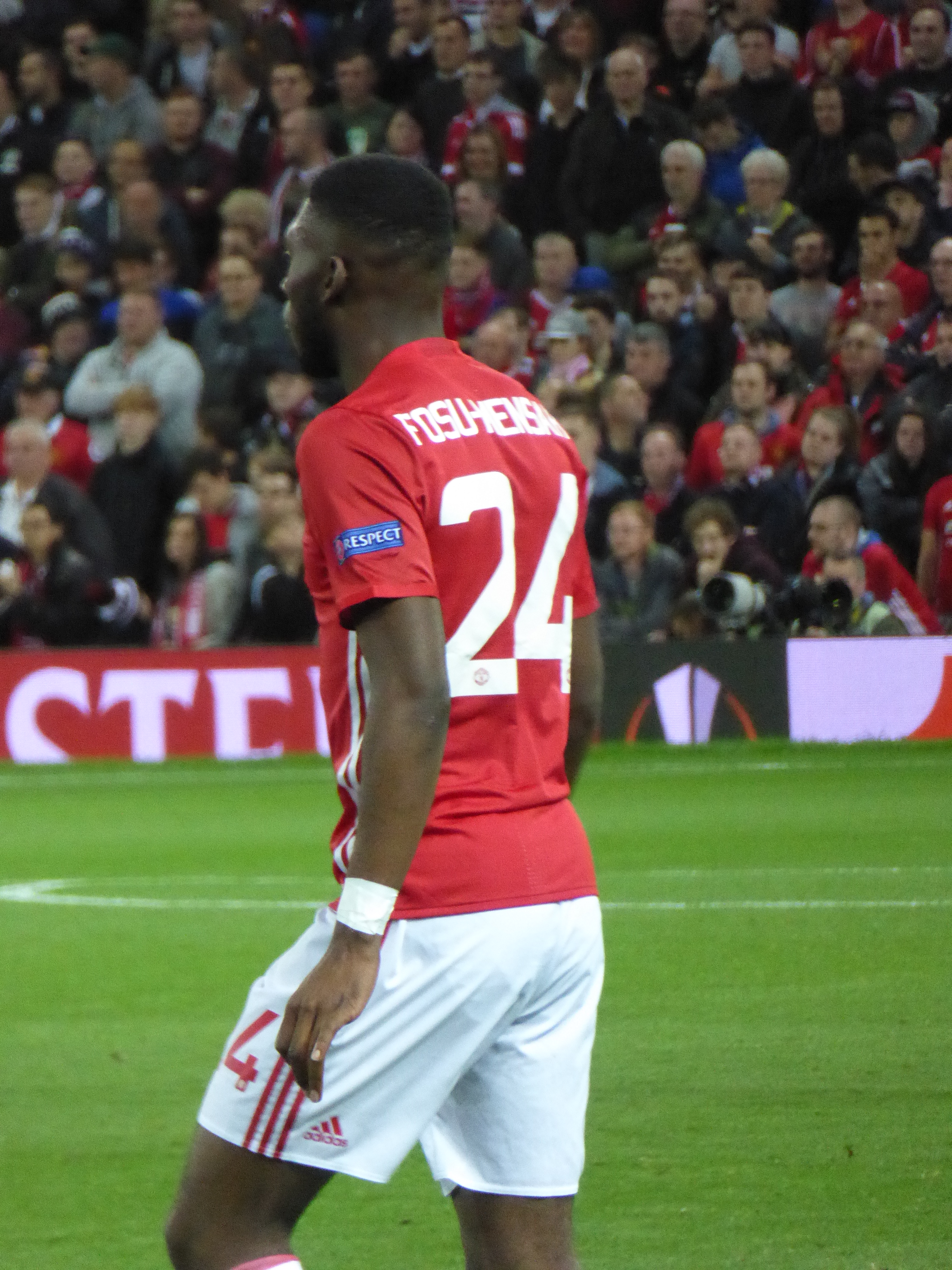 Manchester United v Zorya Luhansk (1-0), Europa League, Old Trafford, Manchester, Greater Manchester, England, September 2016